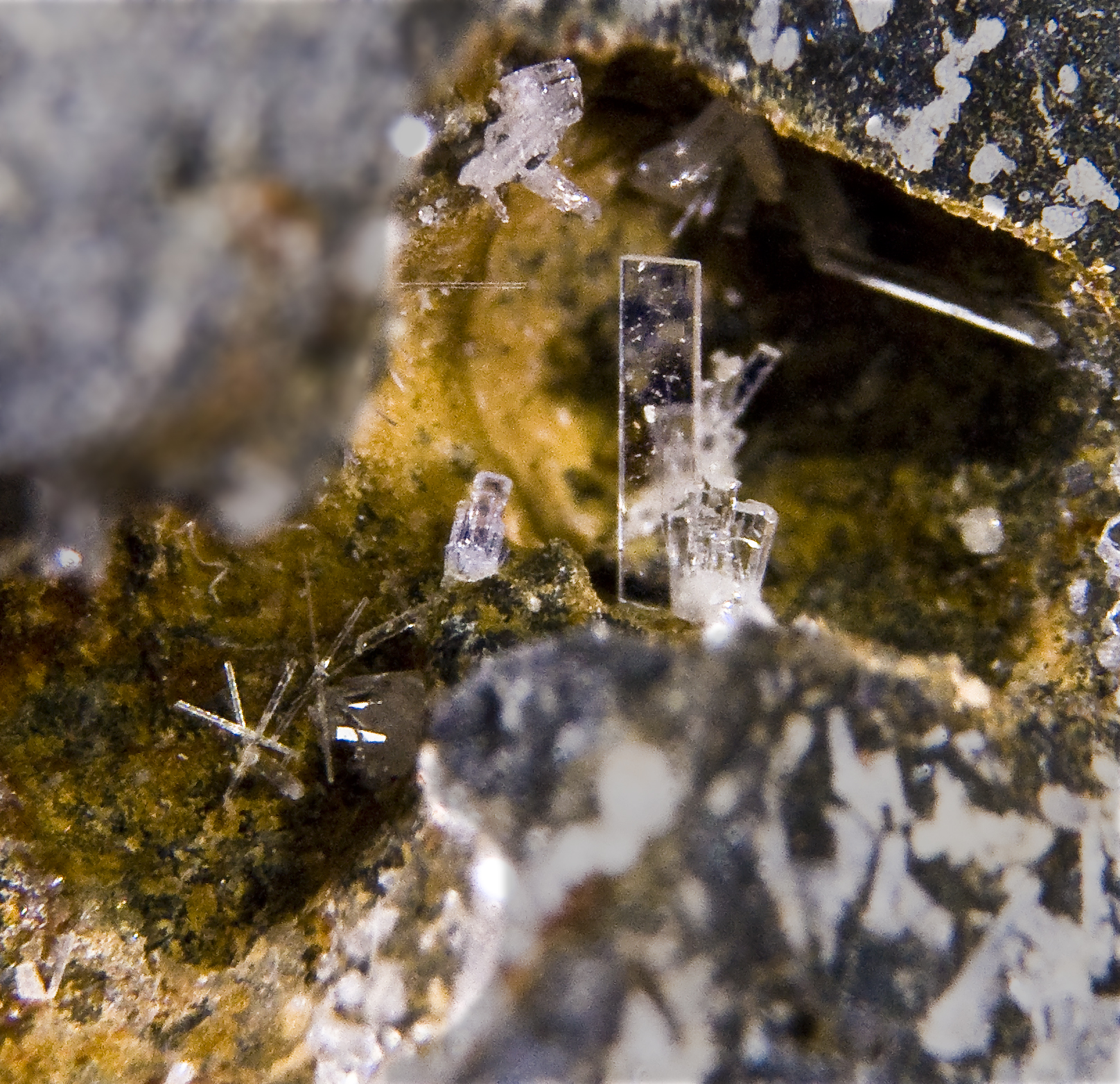 Paralaurionite Locality : Thorikos Bay slag locality, Thorikos area, Lavrion District slag localities, Lavrion (Laurion; Laurium) District, Attikí (Attica; Attika) Prefecture, Greece Size : (view 0.6 × 0.5 cm)